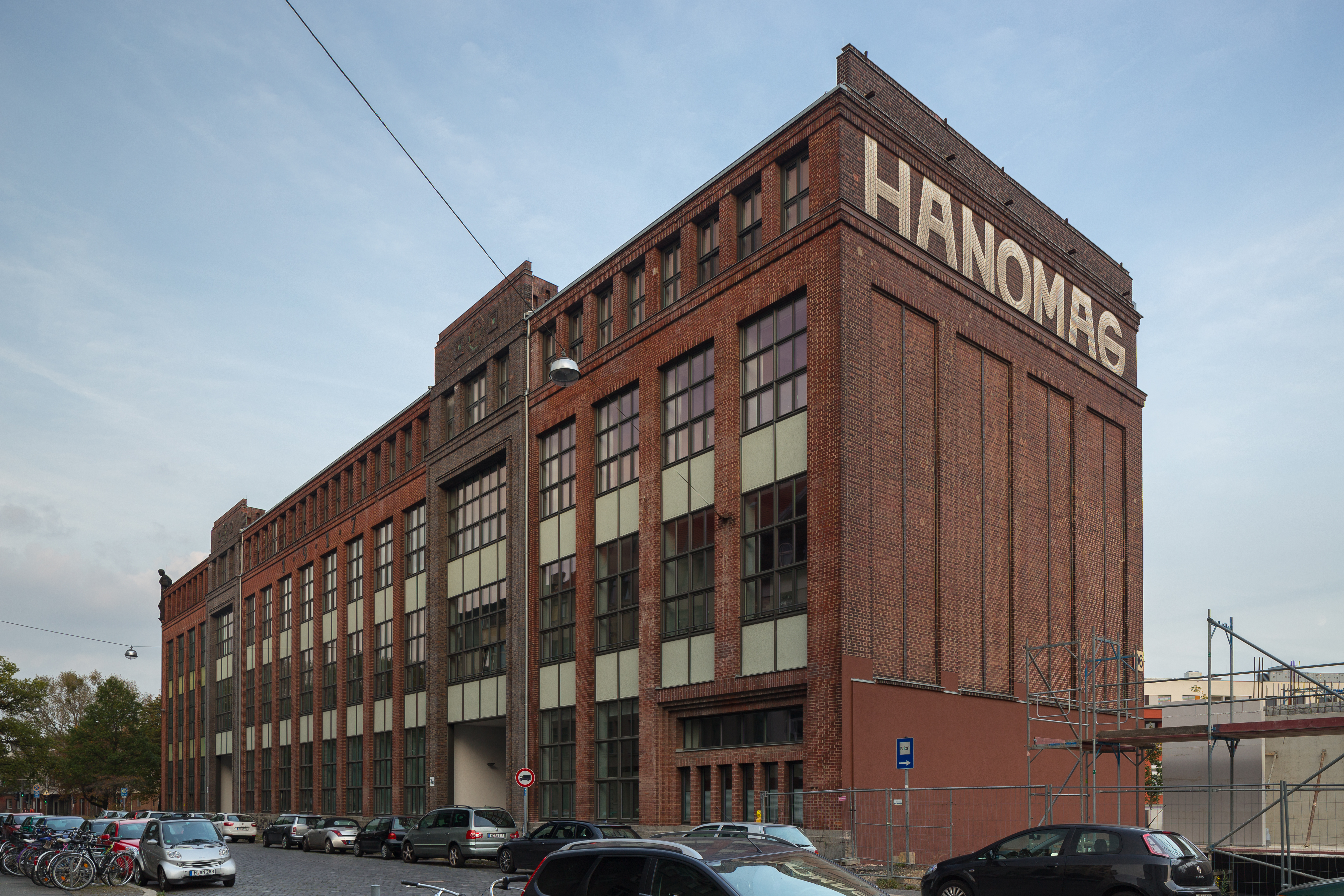 Former factory building no. 96 of former Hanomag company located at Hanomagstrasse in Linden-Sued district of Hanover, Germany.